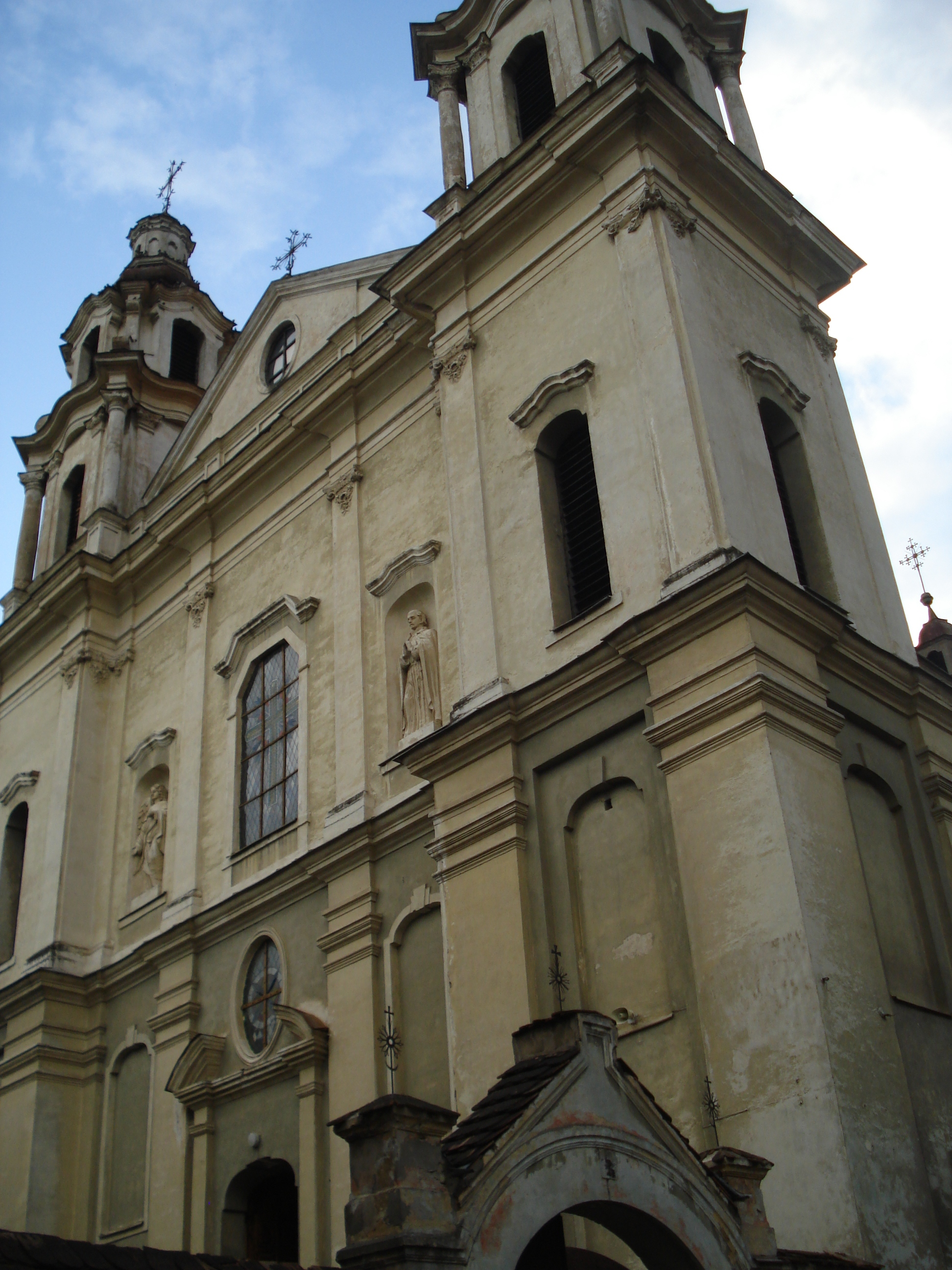 Church of the St Raphael the Archangel in Vilnius (Šnipiškių g. 1). Main facade